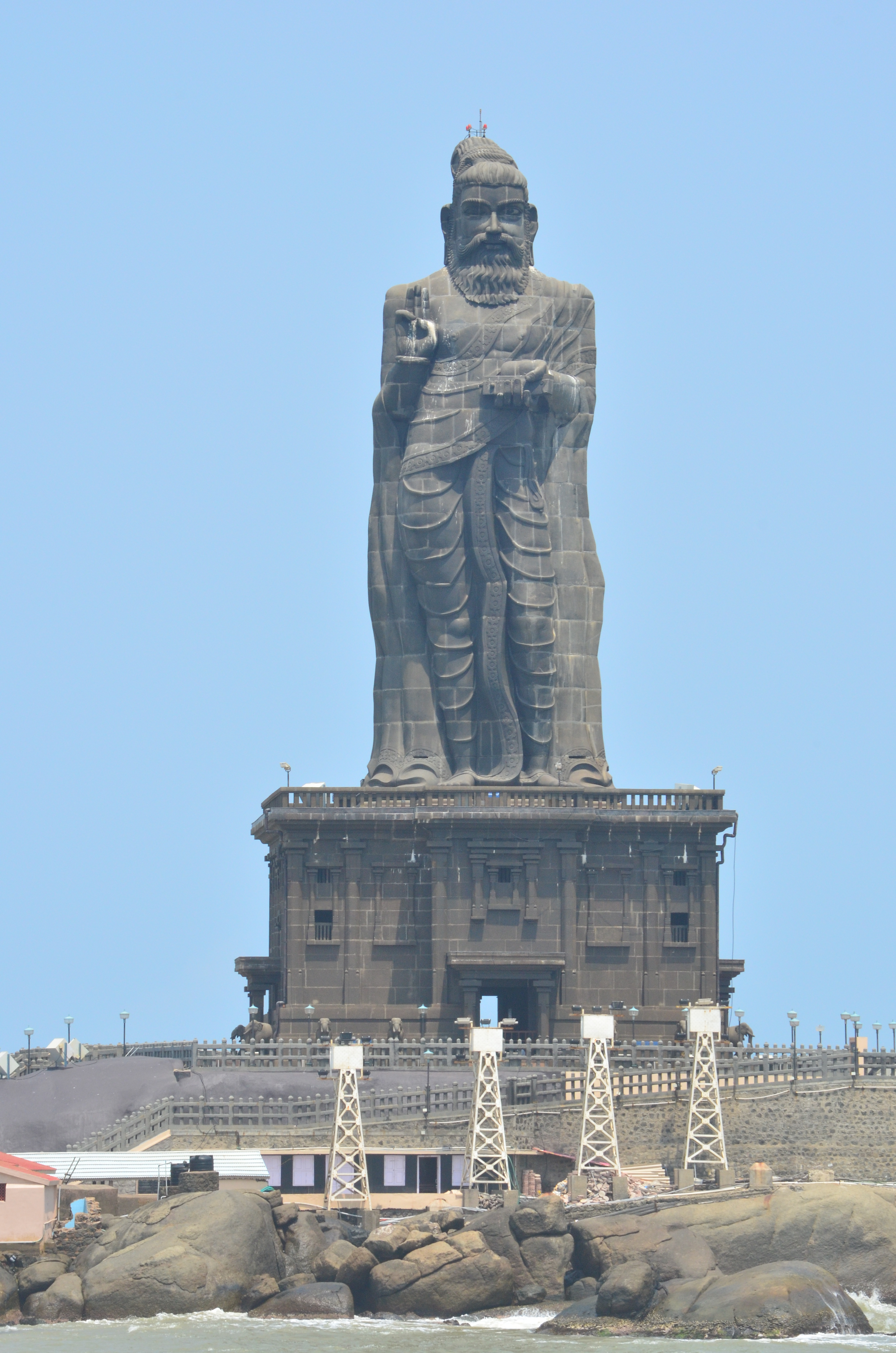 Thiruvalluvar Statue